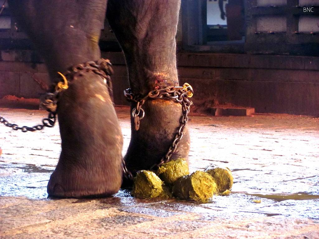 Elephant mistreat in Kerala